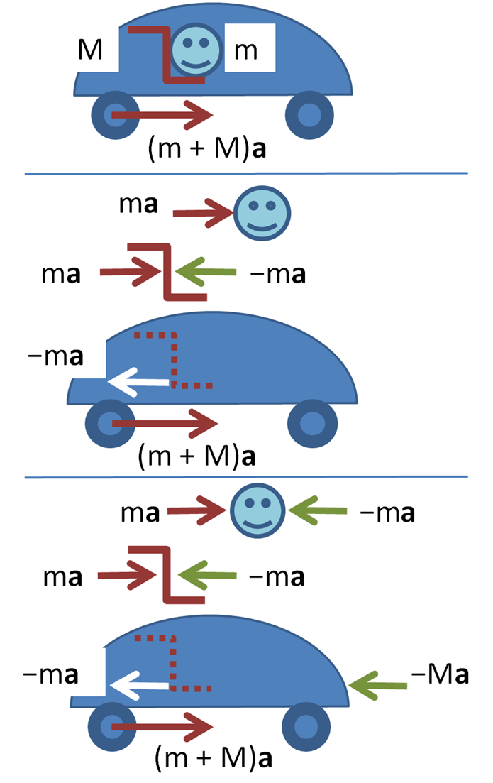 Forces in accelerating car